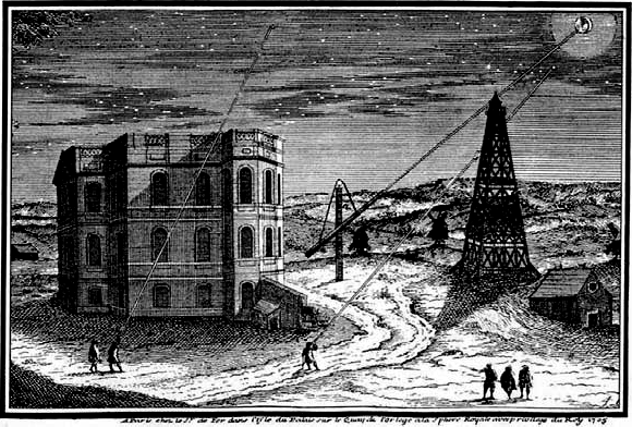 The Paris Observatory in the beginning of the eighteenth century. The tower on the right was the wooden Marly Tower, originally built to lift water for the Versailles reservoirs and fountains, that astronomer and director Giovanni Domenico Cassini moved to the grounds at great expense for the mounting of long tubed telescopes and even longer tubeless Aerial telescopes[1]